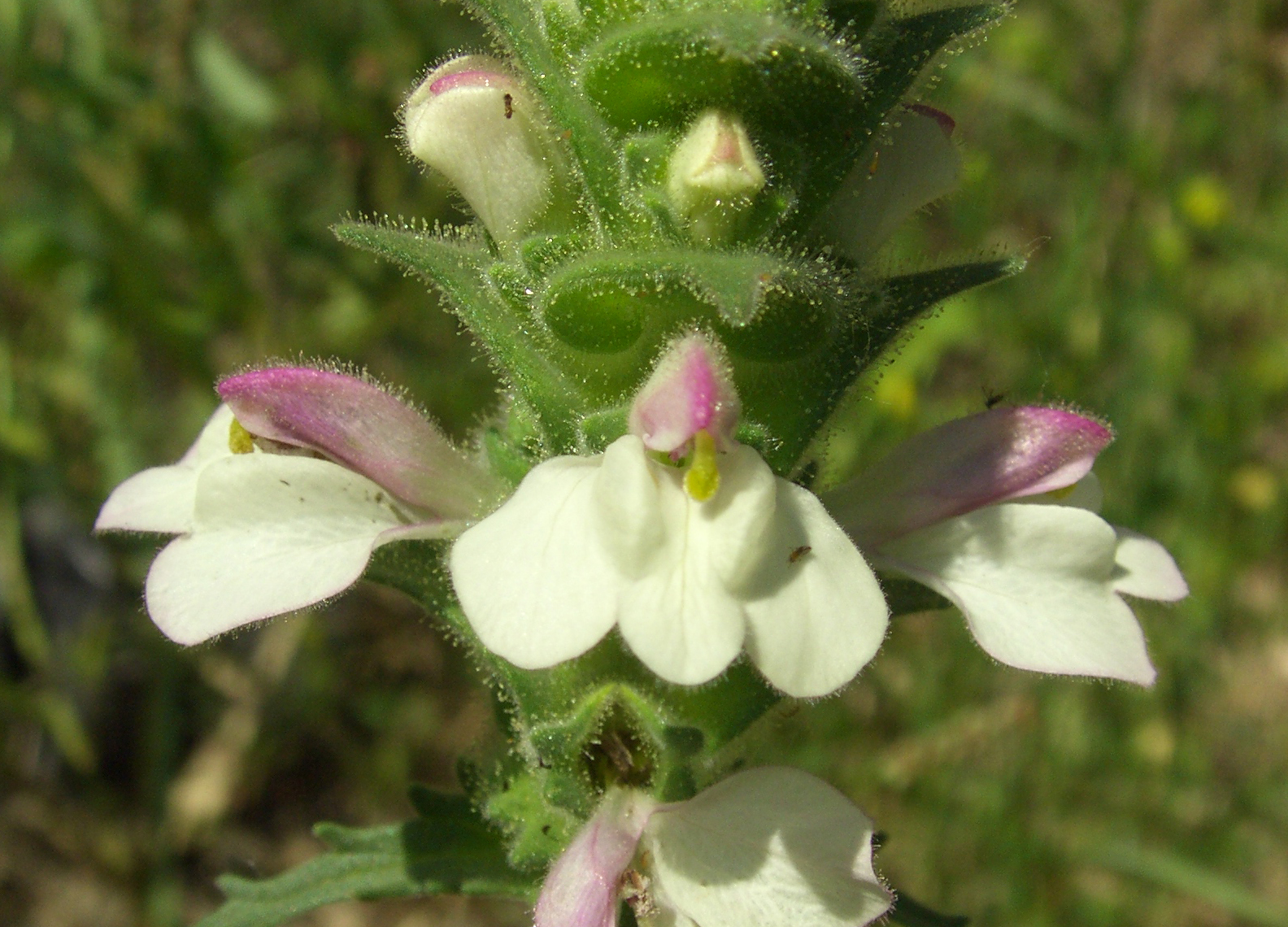 Flowers of Mediterranean lineseed (Bartsia trixago). Çukurova University Campus, Adana - Turkey.